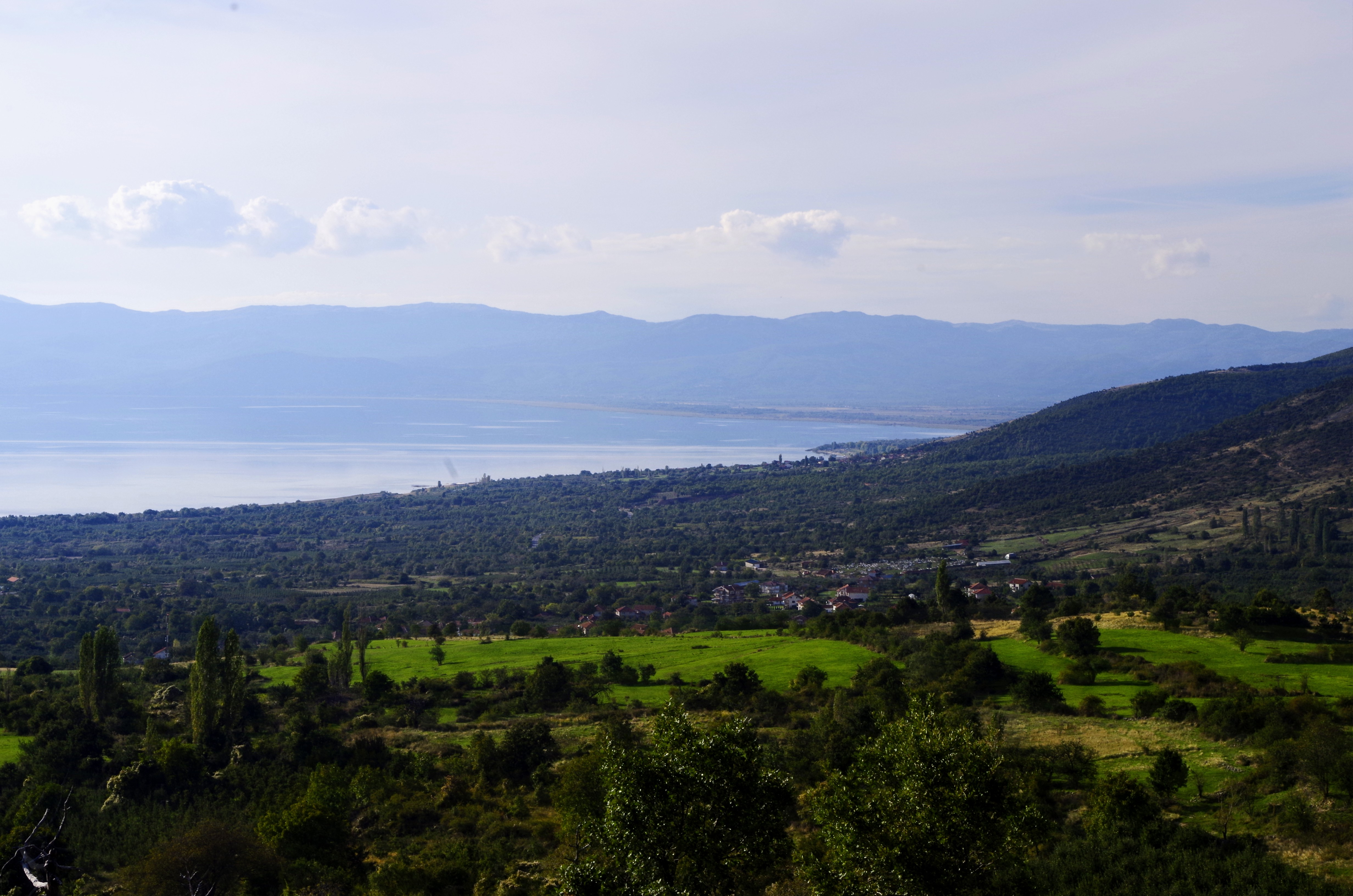 View of the village Krani